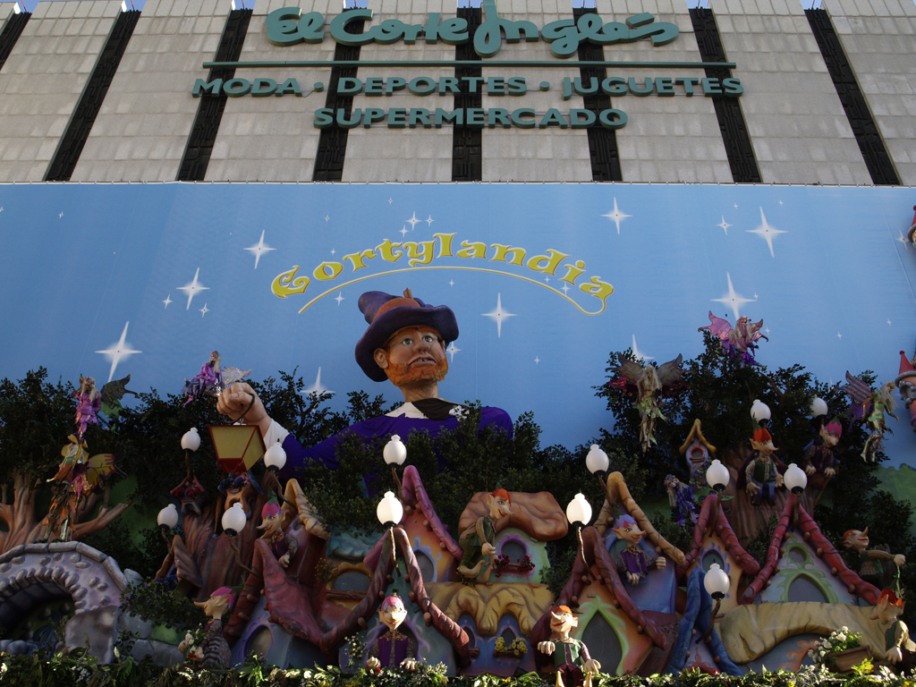 Cortylandia Christmas 2008 in El Corte Inglés-Puerta del Sol, Madrid (Spain)